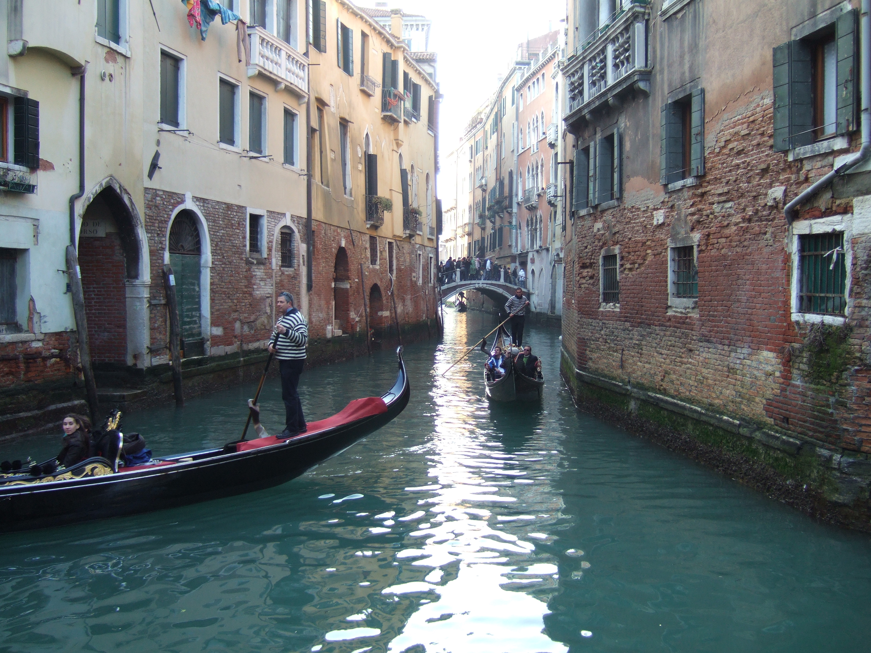 Rio del Fontego dei Tedeschi, Ponte de l'Olio (Venice)